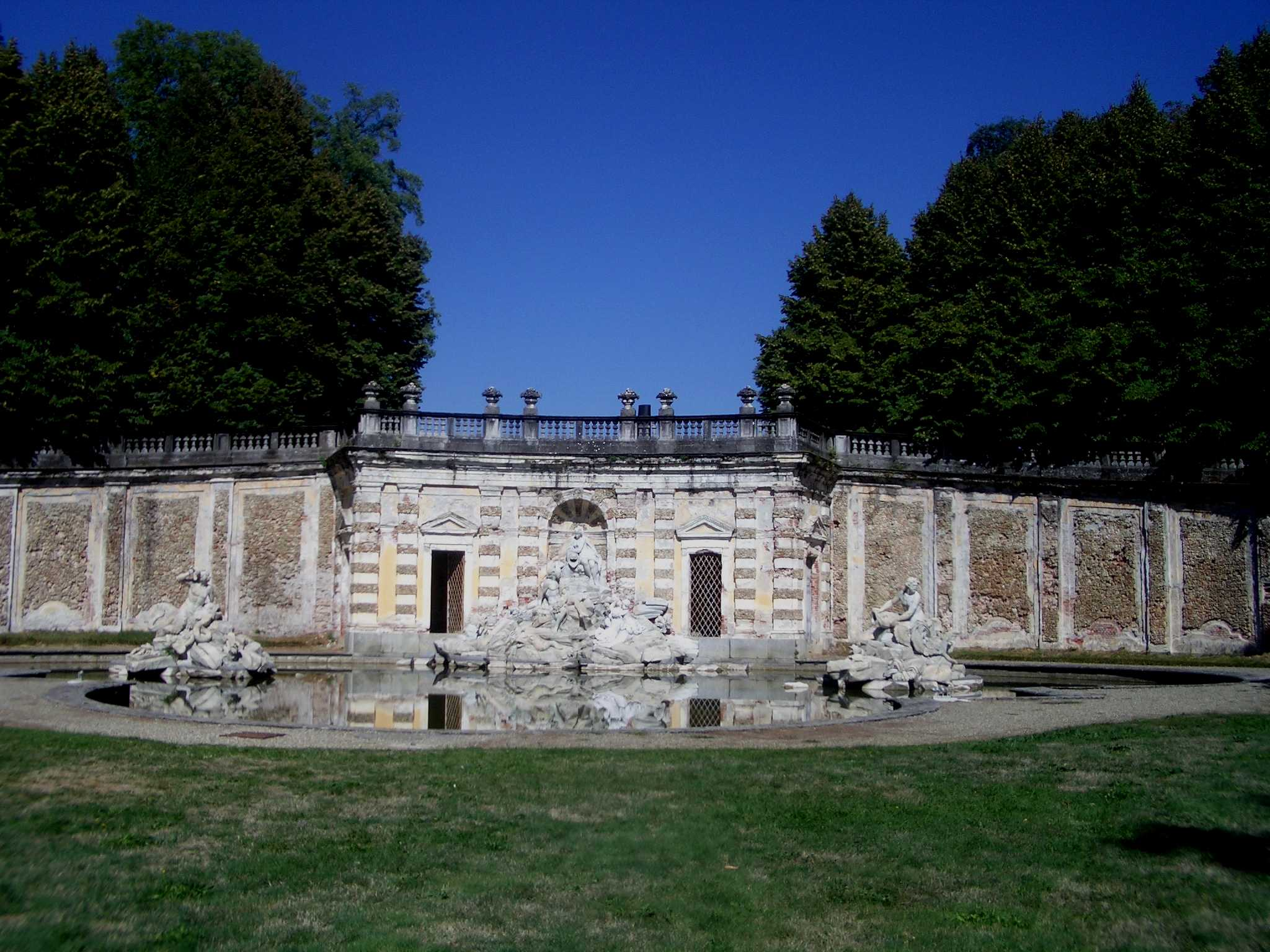 Fountain at Agliè castle (The castle in one of the residences of the Royal House of Savoy), Agliè, Turin, Italy